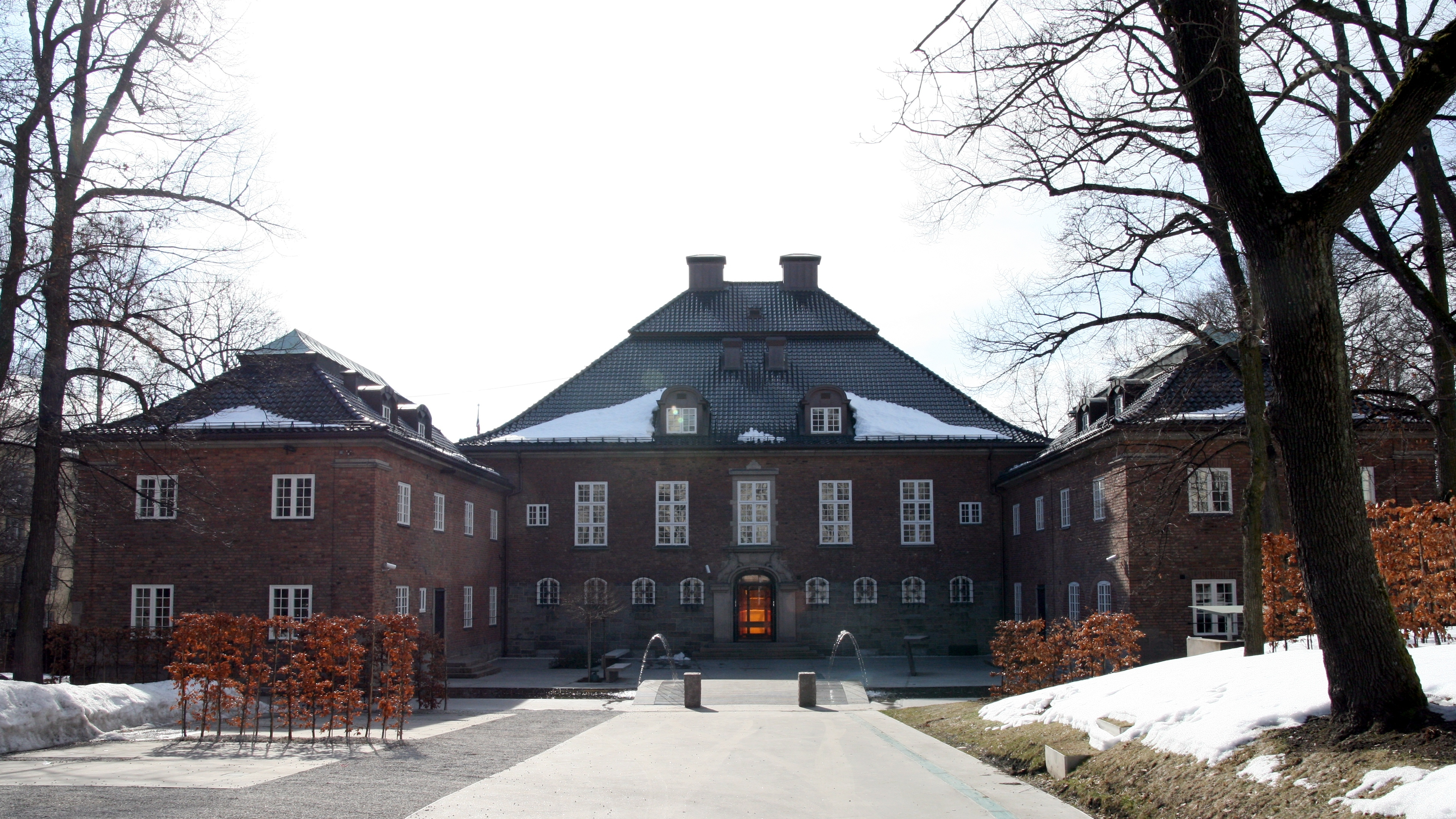 HQ of Choice Hotels Scandinavia. Frederik Stang street 22-24, Oslo, Norway. Villa from 1917-1919. Architects Erik Andersen and Arnstein Arneberg.